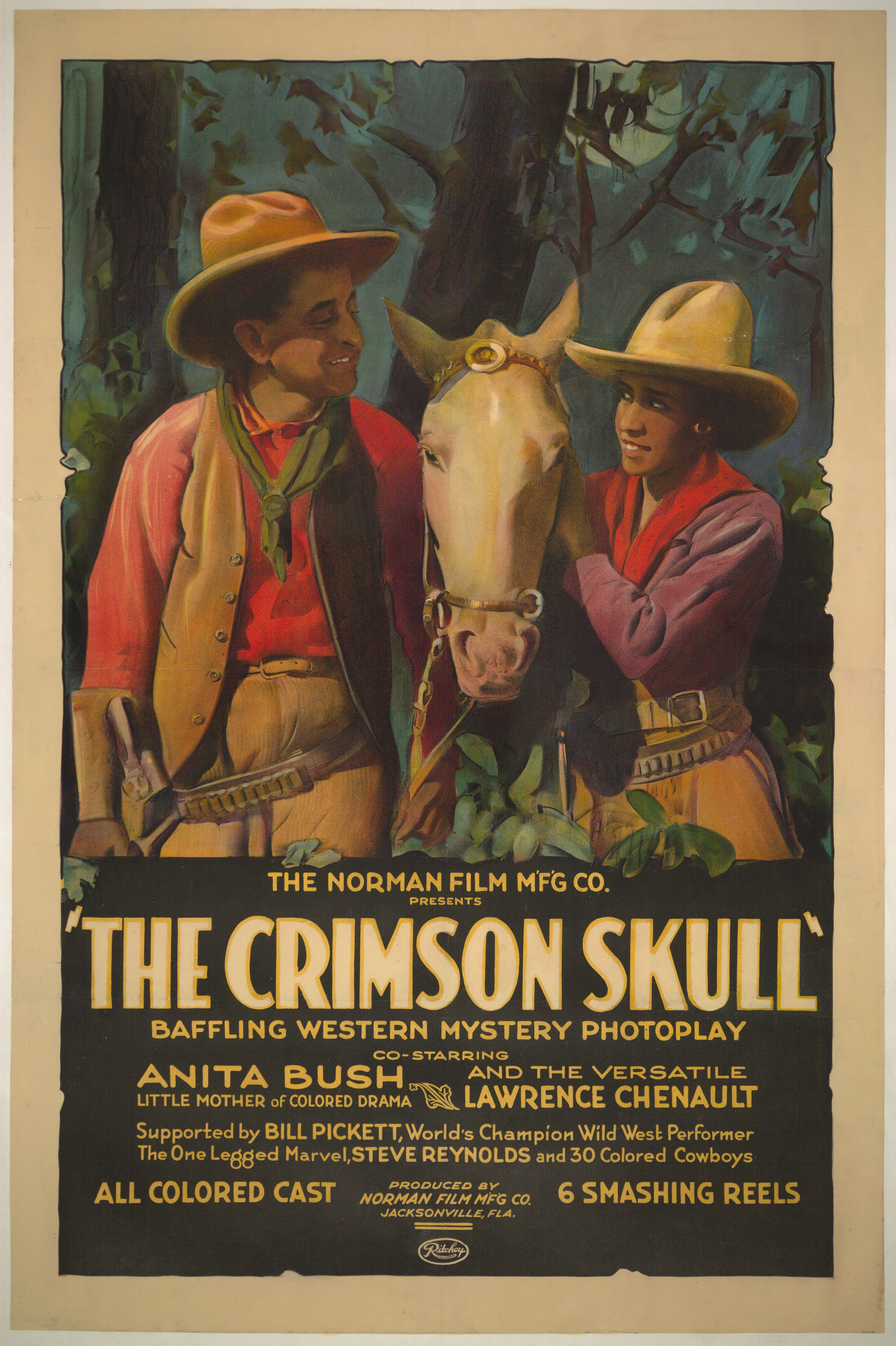 Title: The Crimson skull Abstract/medium: 1 print (poster) : lithograph, color.